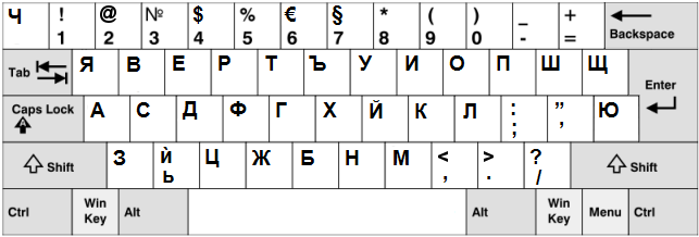 Bulgarian Keyboard layout